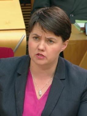 Rt Hon Ruth Davidson MSP at Holyrood in 2017, replying to an urgent statement by the First Minister in relation to the Manchester Attack.